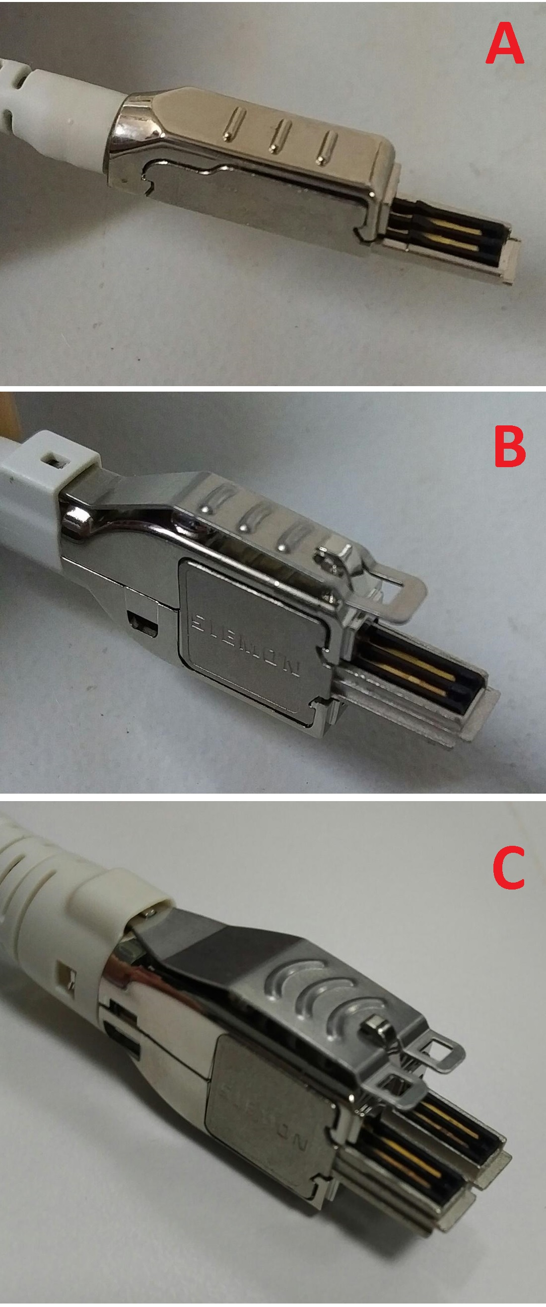 TERA connector allows splitting the link through different patch cords, in the photo they are labeled as A : it uses single pair (two wires) which is used for analog phones (or CCTV using BNC to terminate the other end) B : it uses two pairs (four wires) which can be used for low speed Ethernet or Fast Ethernet connections C : it uses the four pairs (eight wires) which is what is used for high speed Gigabit Ethernet and higher (10Gbps, 40Gbps, 100Gbps)